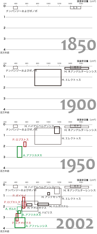 Modified by Mo-rin,original images drawn by User:Gdr (image:Hominins 1850.png image:Hominins 1900.png image:Hominins 1950.png image:Hominins 2002.png) under GFDL